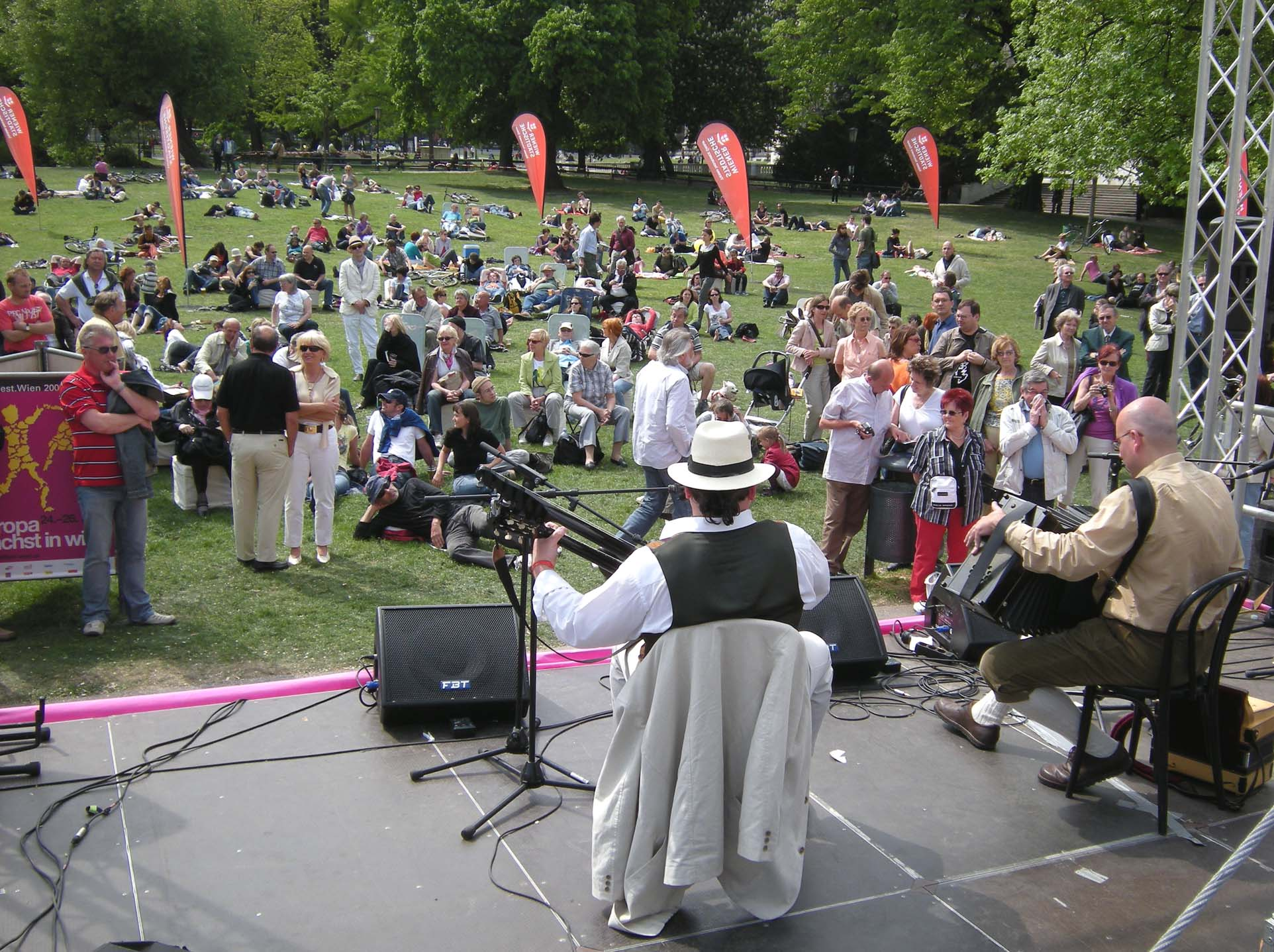 '16er Buam' performance at Vienna's annual Stadtfest, 2009, in 'Burggarten'. Note: Camera timesetting is UTC, which is local time -2.